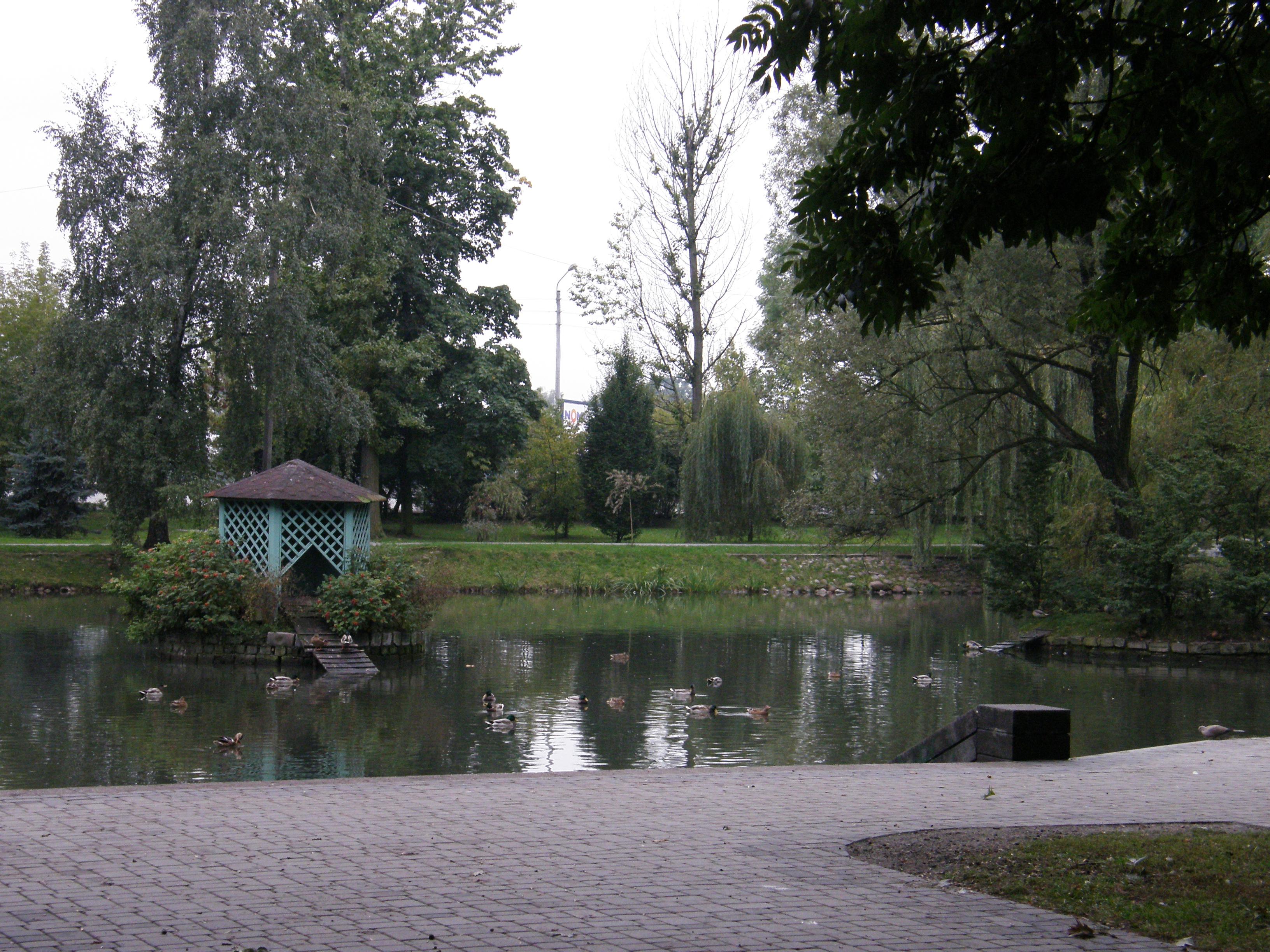 Park in Radomsko